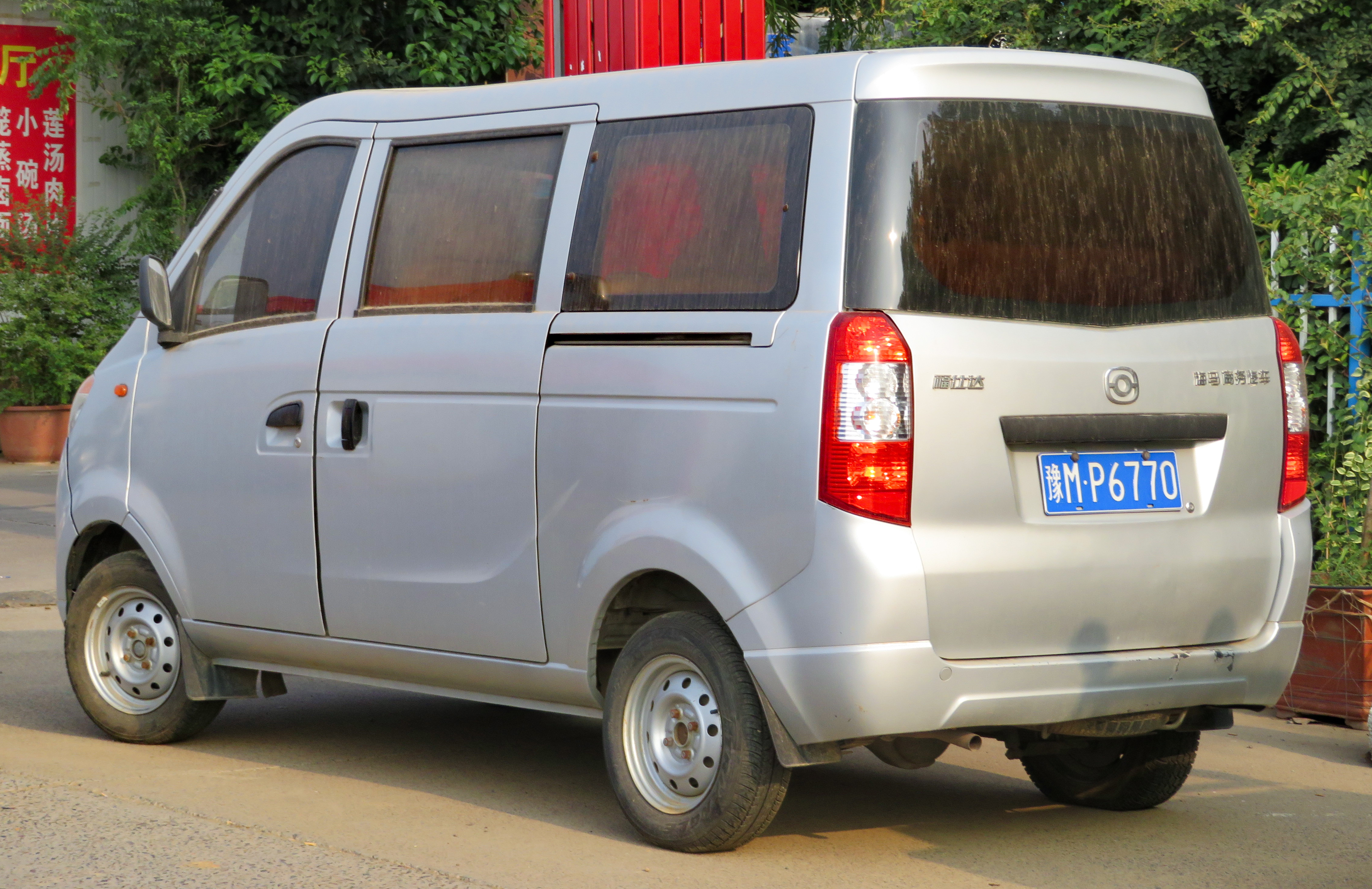 A 2010 Zhengzhou-Haima Fushida (Fstar) photographed at Guanlinzhen, in Luoyang, Henan province, China